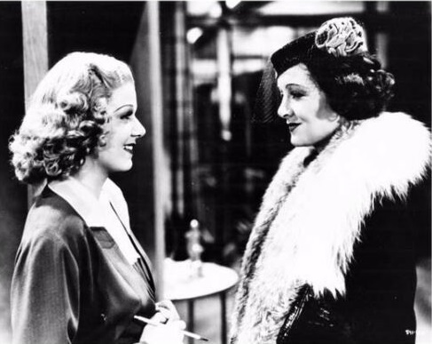 Jean Harlow & Myrna Loy in American comedy drama film Wife vs. Secretary (1936). See also film still. No copyright notice.